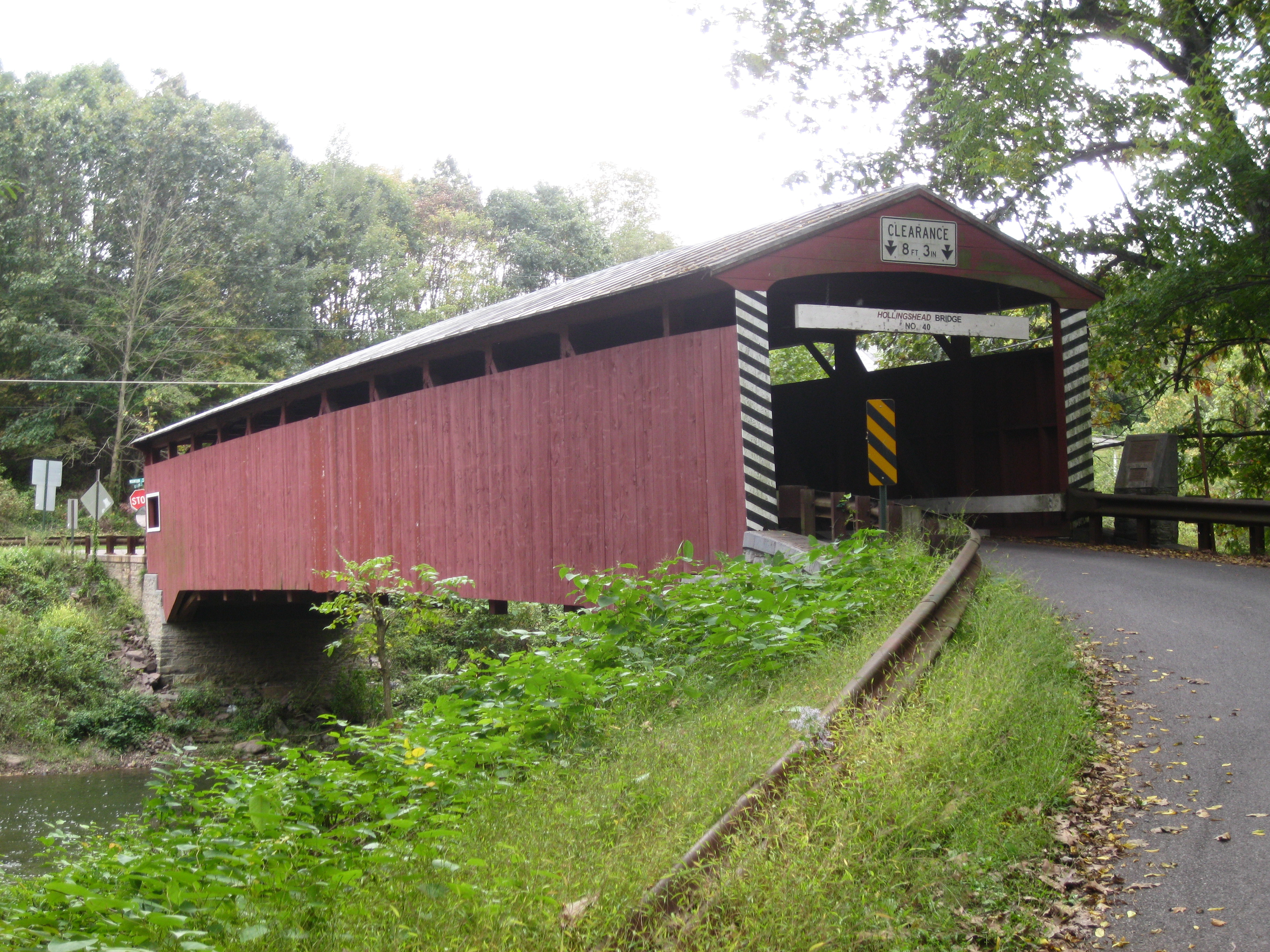 Hollingshead Covered Bridge No. 40 originally built in 1850 over Catawissa Creek in Catawissa Township in Columbia County, Pennsylvania, in the United States.